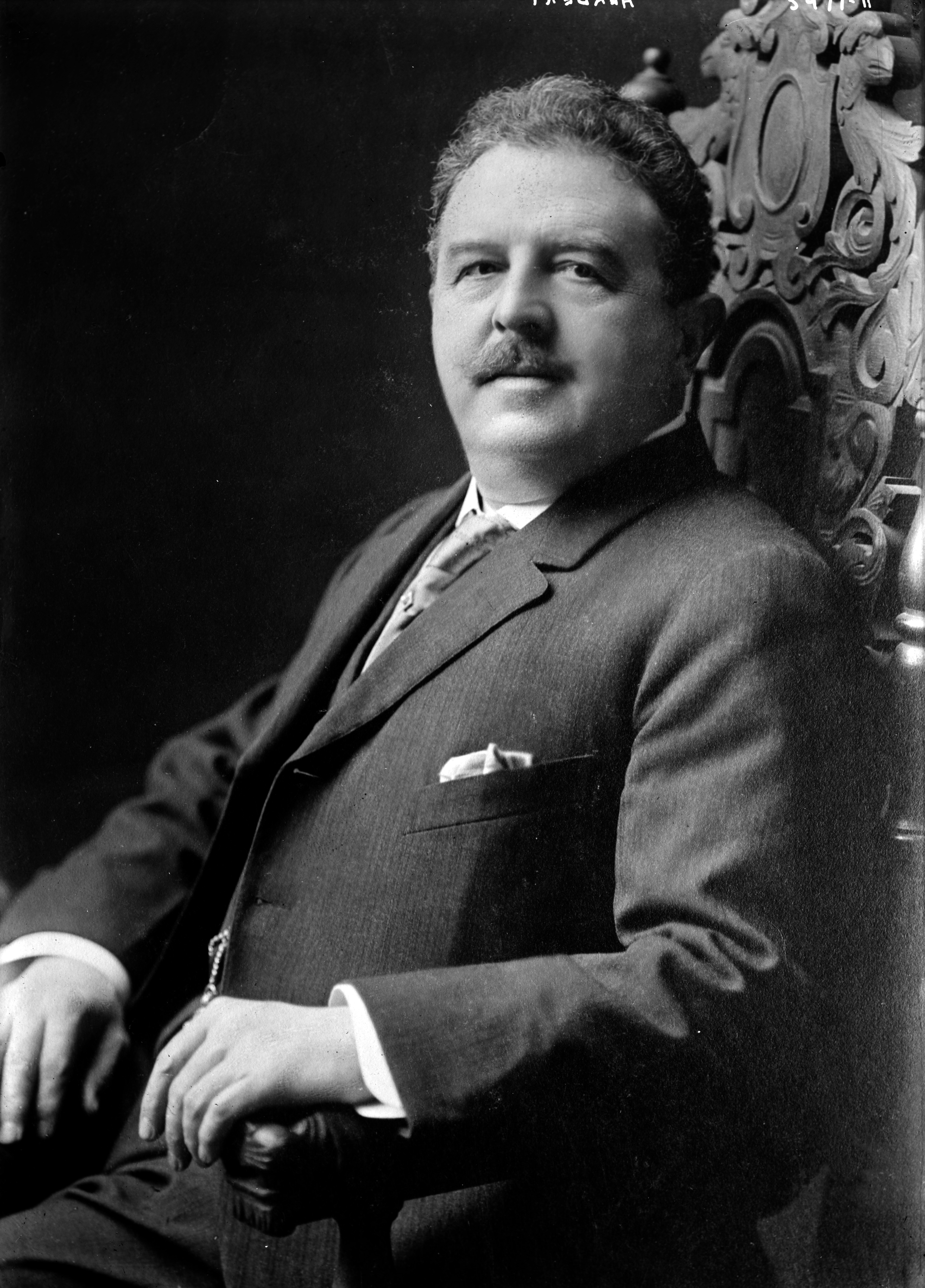 Undated photo of Victor Herbert (1859-1924), American composer, cellist and conductor